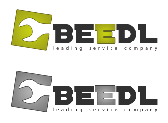 Basic and monochromatic version of typical logo.